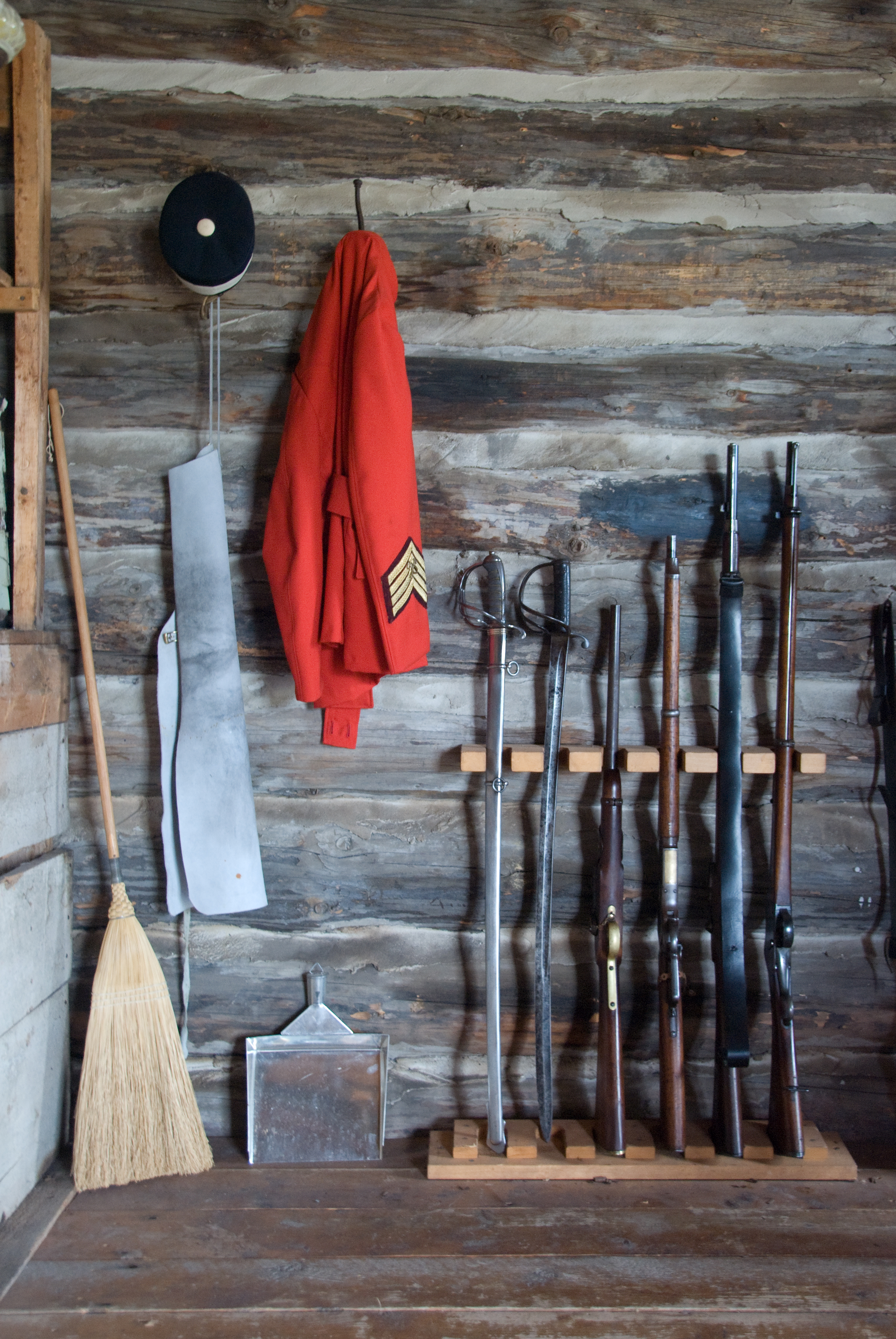 Fort Walsh National Historic Site of Canada